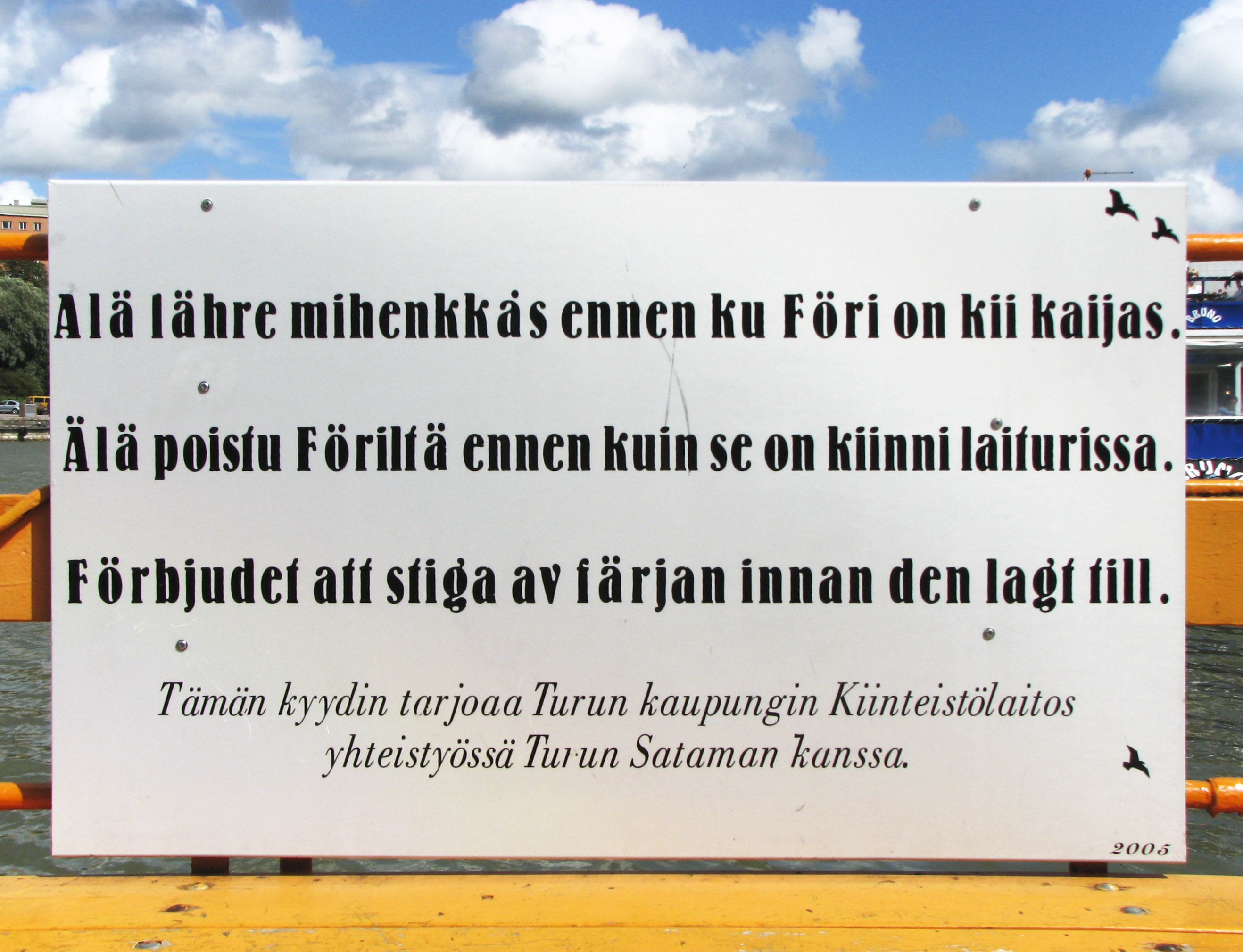 A plaque in the Föri ferry of Turku, Finland, urges the passengers in Turku dialect, standard Finnish and Swedish not to leave the ferry before it has docked.